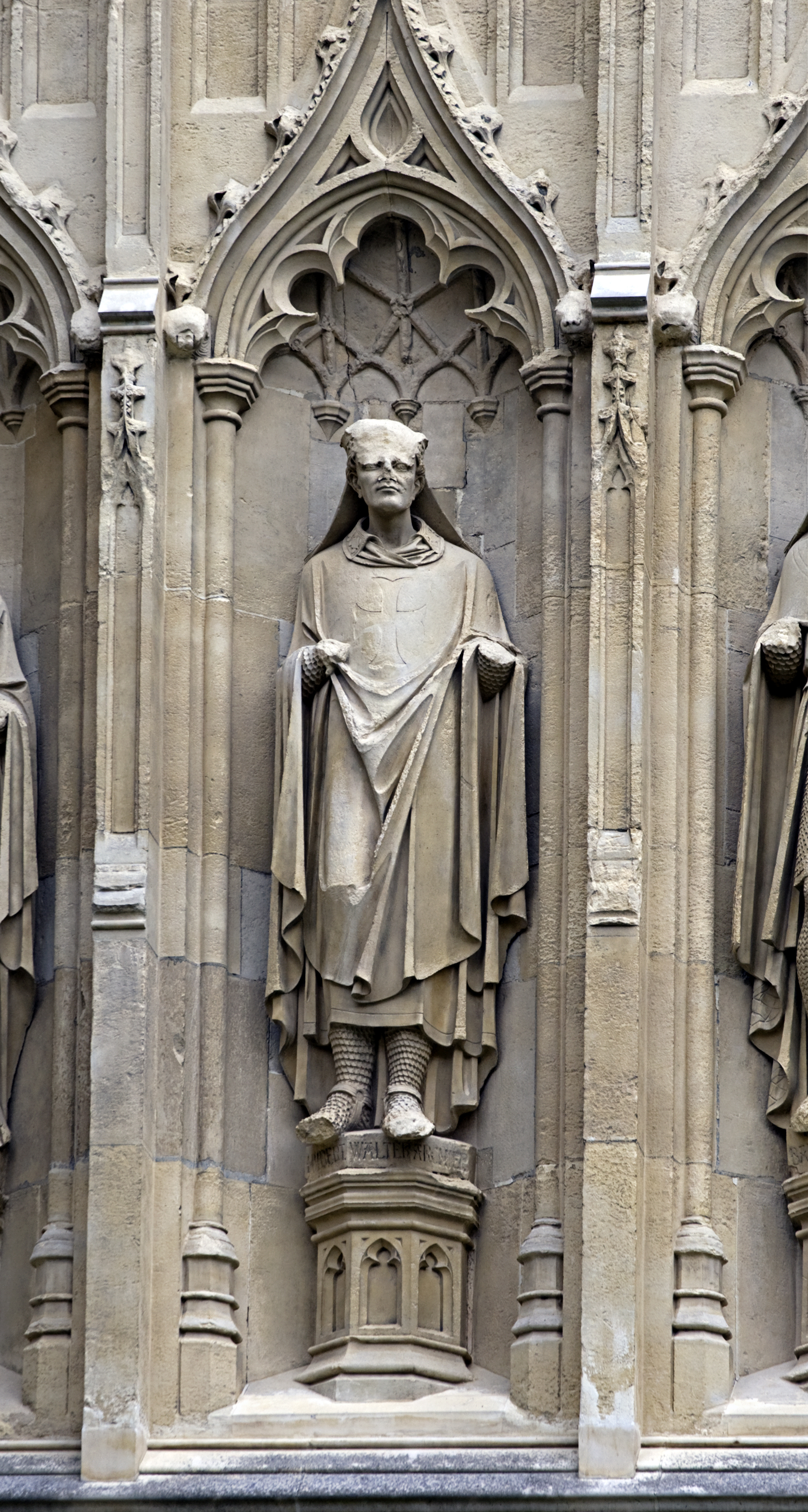 Statue of Hubert Walter, Archbishop of Canterbury, from the exterior of Canterbury Cathedral